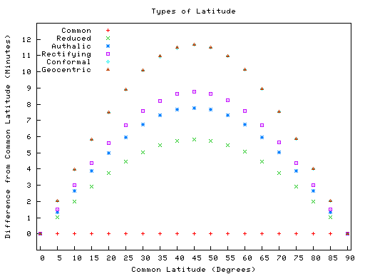 Comparison between different types of latitude (common, reduced, authalic, rectifying, conformal, geocentric) that shows the difference from the common latitude